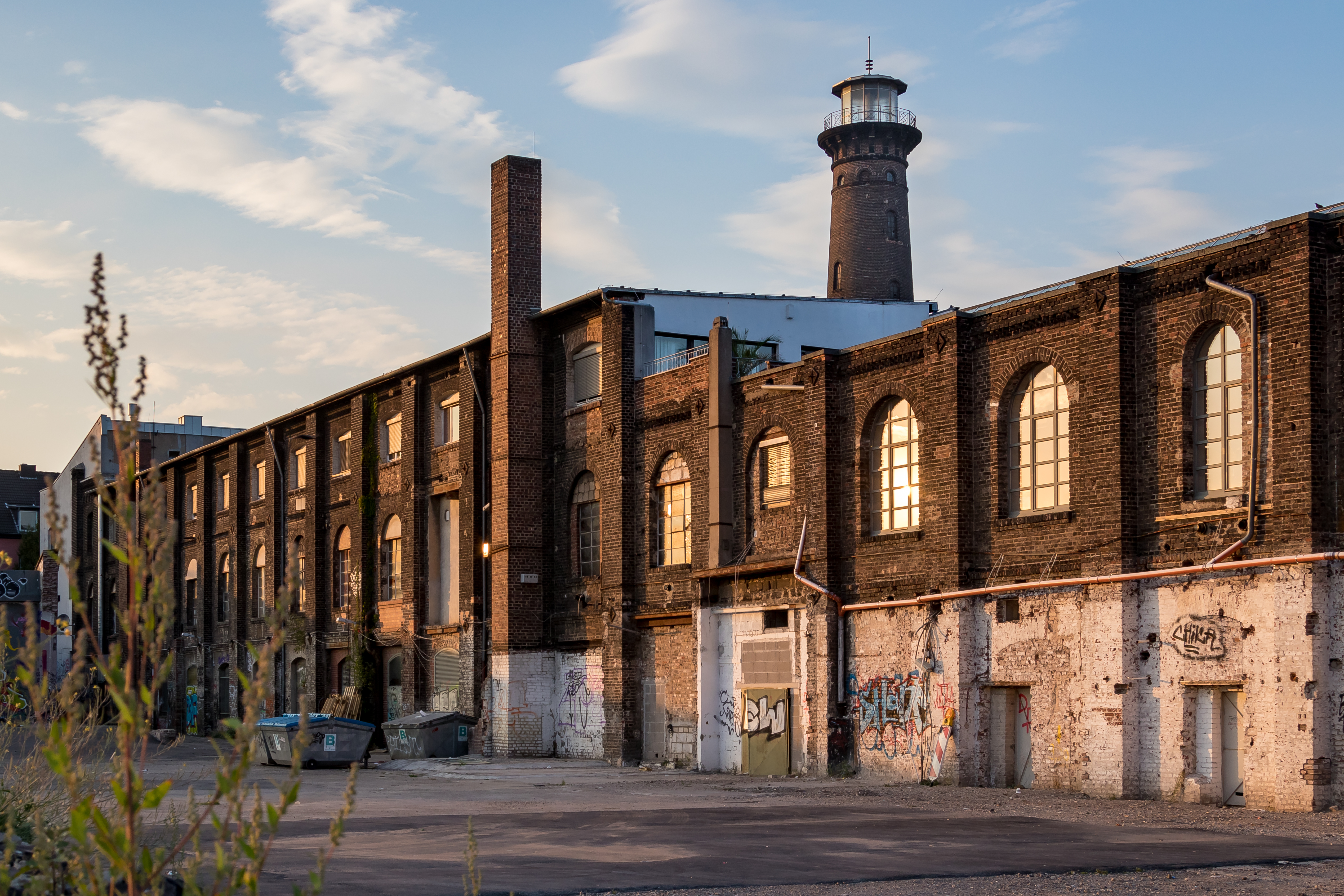 Ancient lighthouse in Cologne-Ehrenfeld